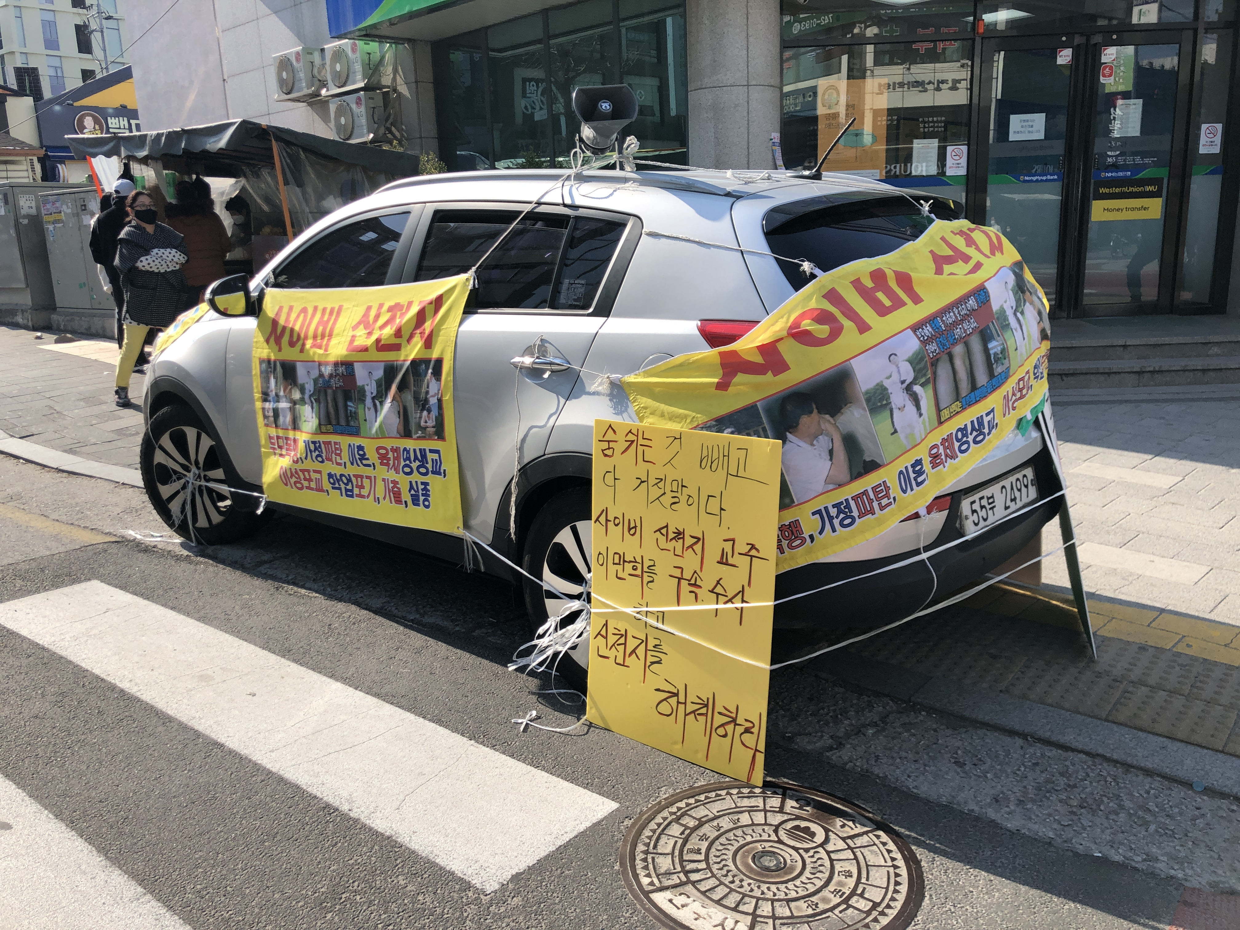 A car is parked to protest against shincheonji in Wonil-ro 115beon-gil, Wonju-si, Gangwon-do